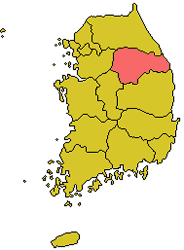 Diocese of Wonju